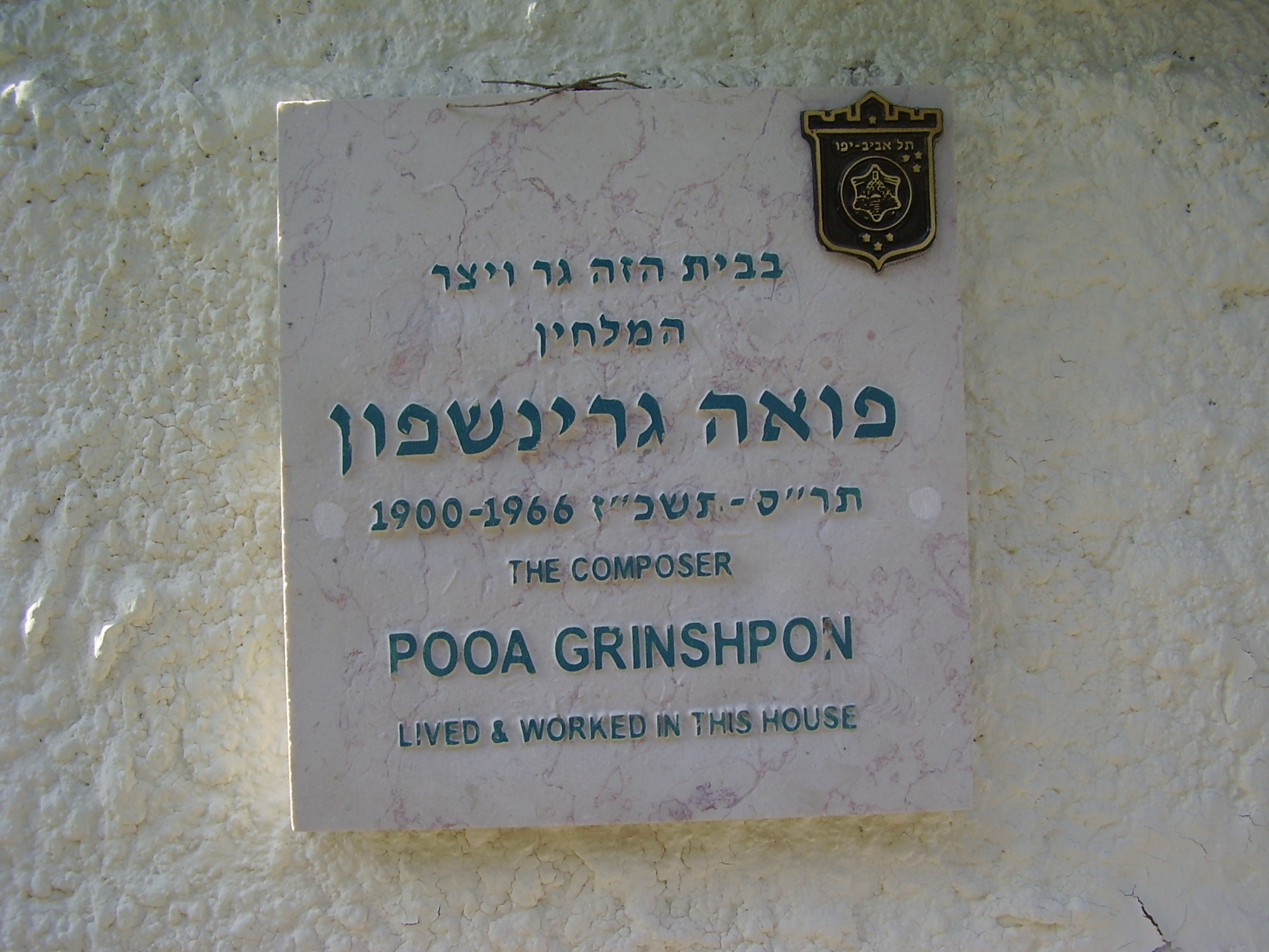 memorial plaque to the composer pooa grinshpon in tel aviv לוחית זיכרון למלחין פואה גרינשפון על ביתו ברח' חיסין 18 בתל אביב